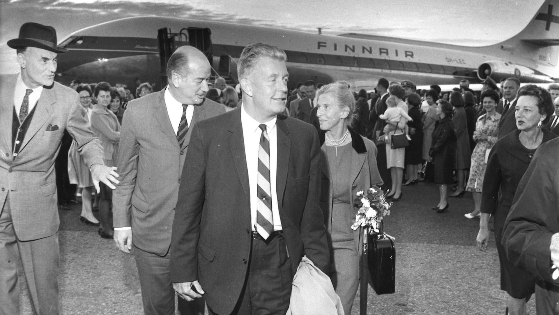 The United States Ambassador to Finland, Mr. Tyler Thompson, arriving to Finland in 1964.